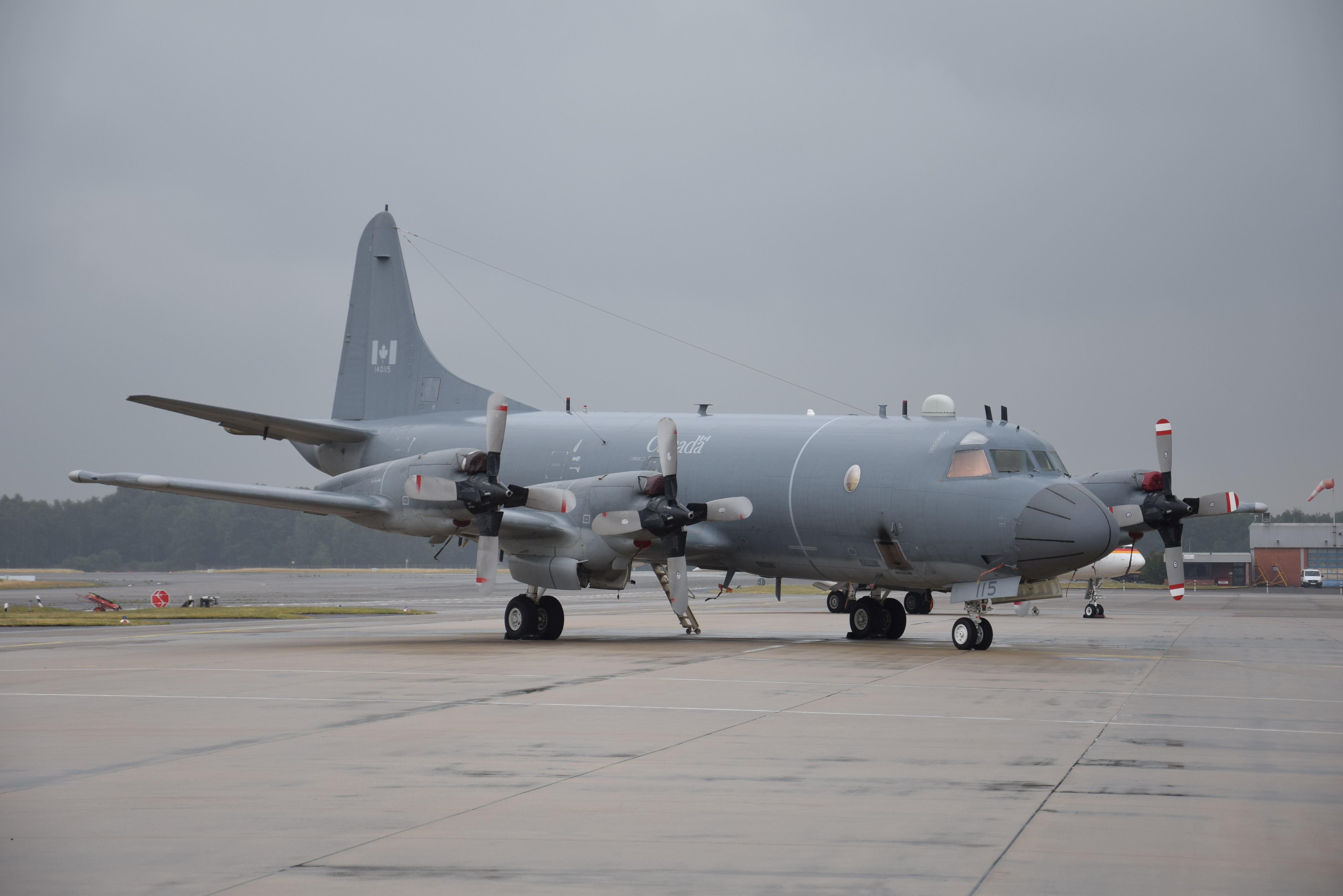 Lockheed CP-140 Aurora (No. 140115) on the military tarmac of Cologne Bonn Airport in June 2015.